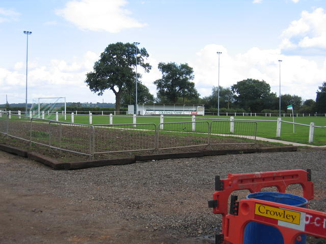 Pack Meadow, the ground of Coleshill Town FC beside Packington Lane, Coleshill, Warwickshire